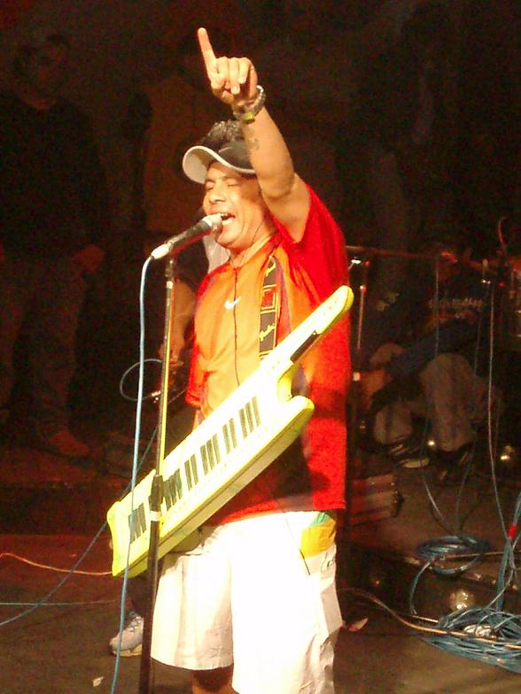 El Recital En vivo de Damas Gratis